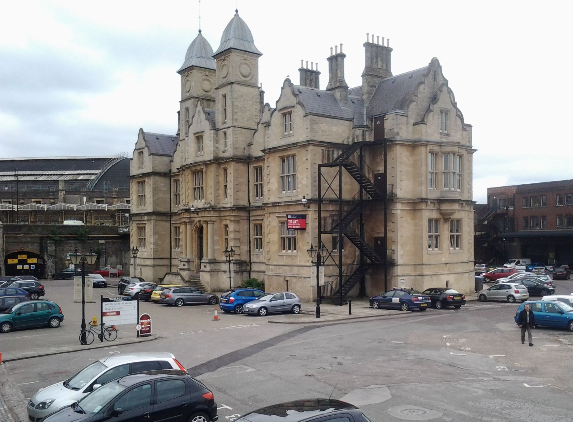 The former Bristol and Exeter Railway terminal building in Bristol